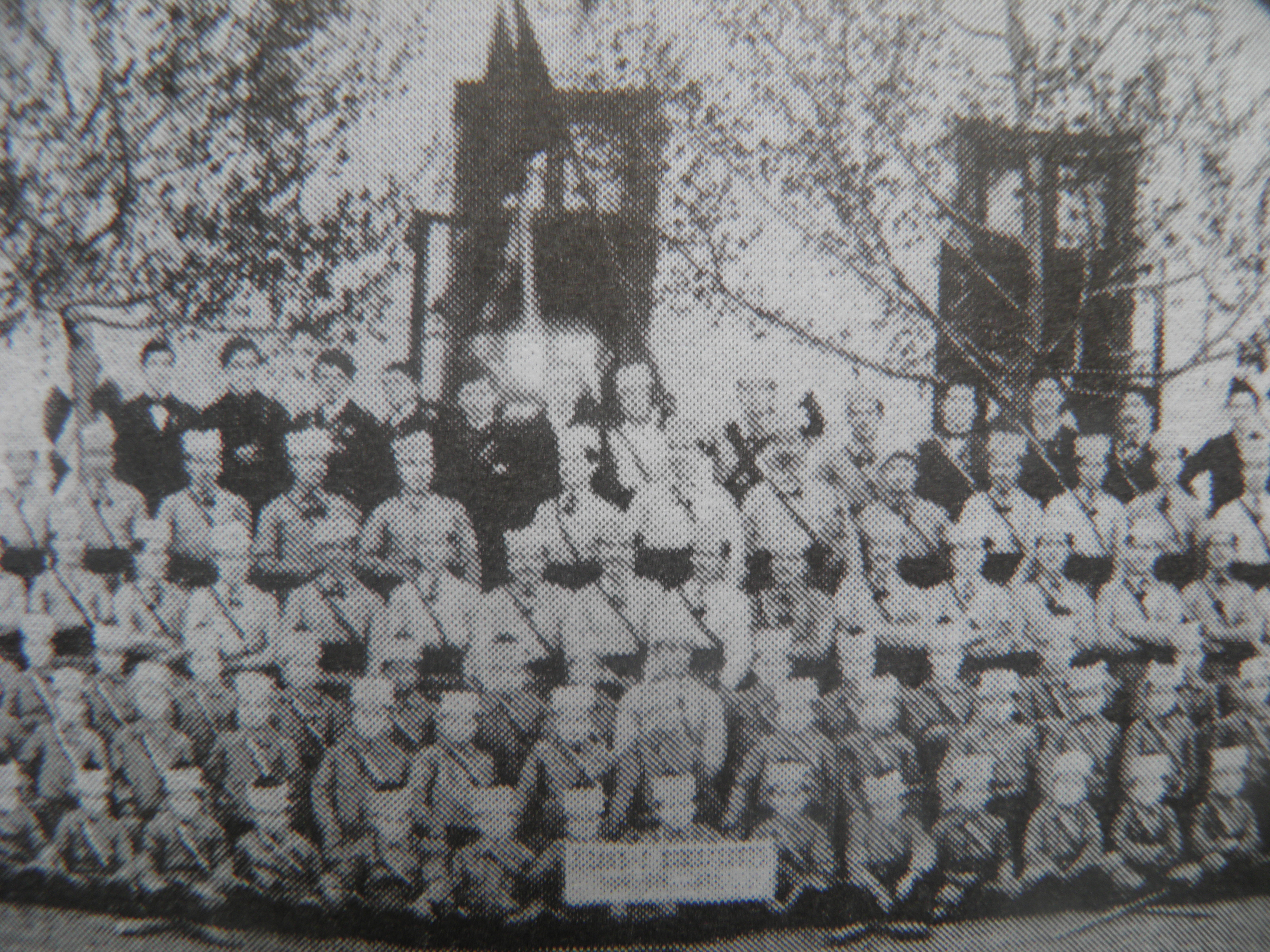 1902 Горнооряховско юнашко дружество